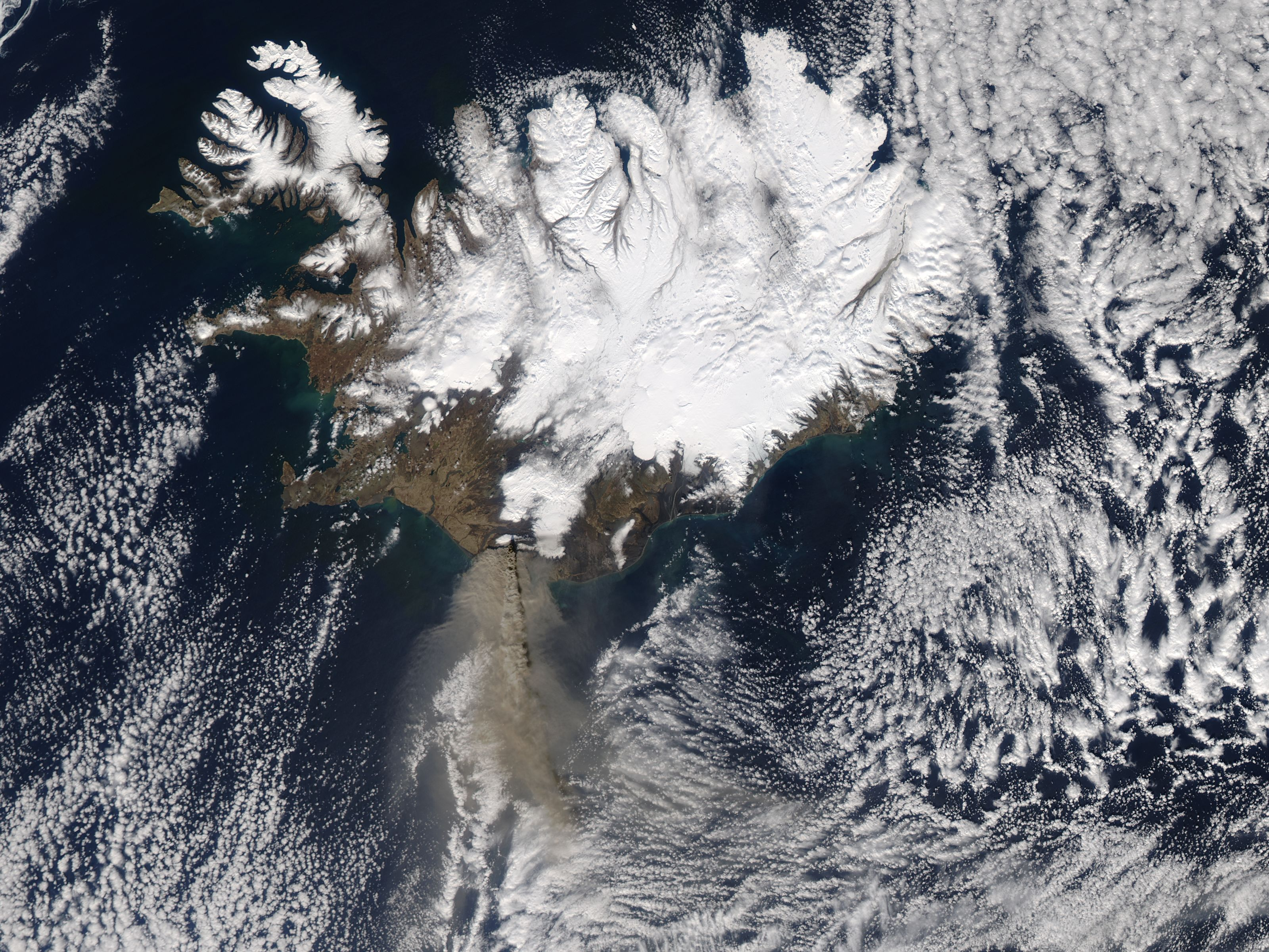 Eruption of Eyjafjallajökull Volcano, Iceland April 17